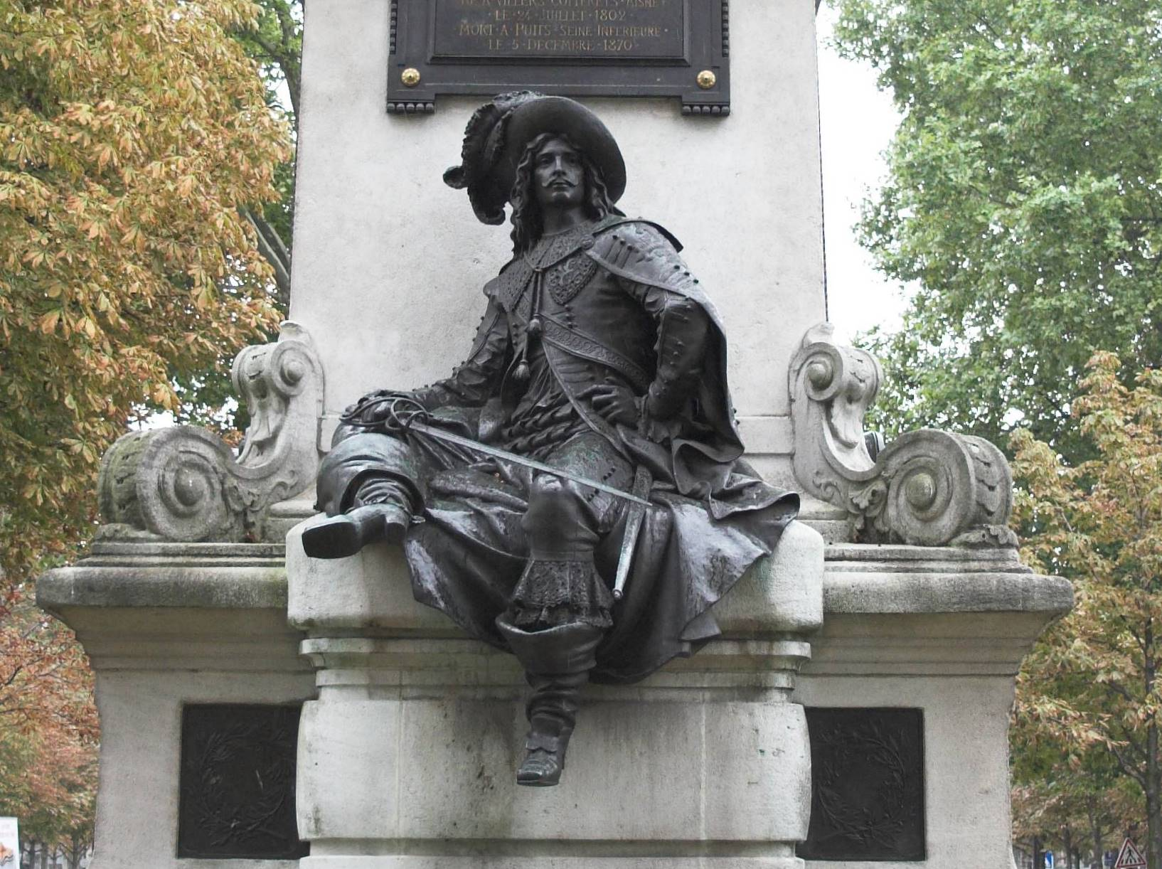 Statue of A. Dumas and d'Artagnan by Gustave Doré. Bronze, 1883. Place du Général-Catroux, Paris XVIIe arrondissement, France.